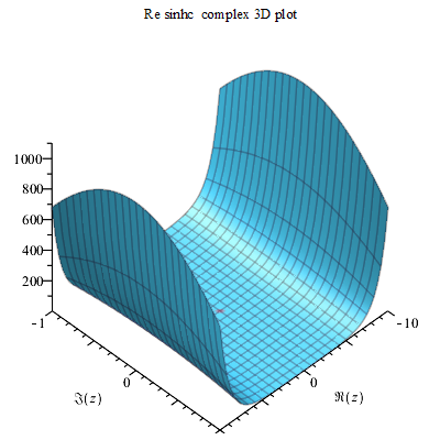 Sinhc Re complex 3D plot